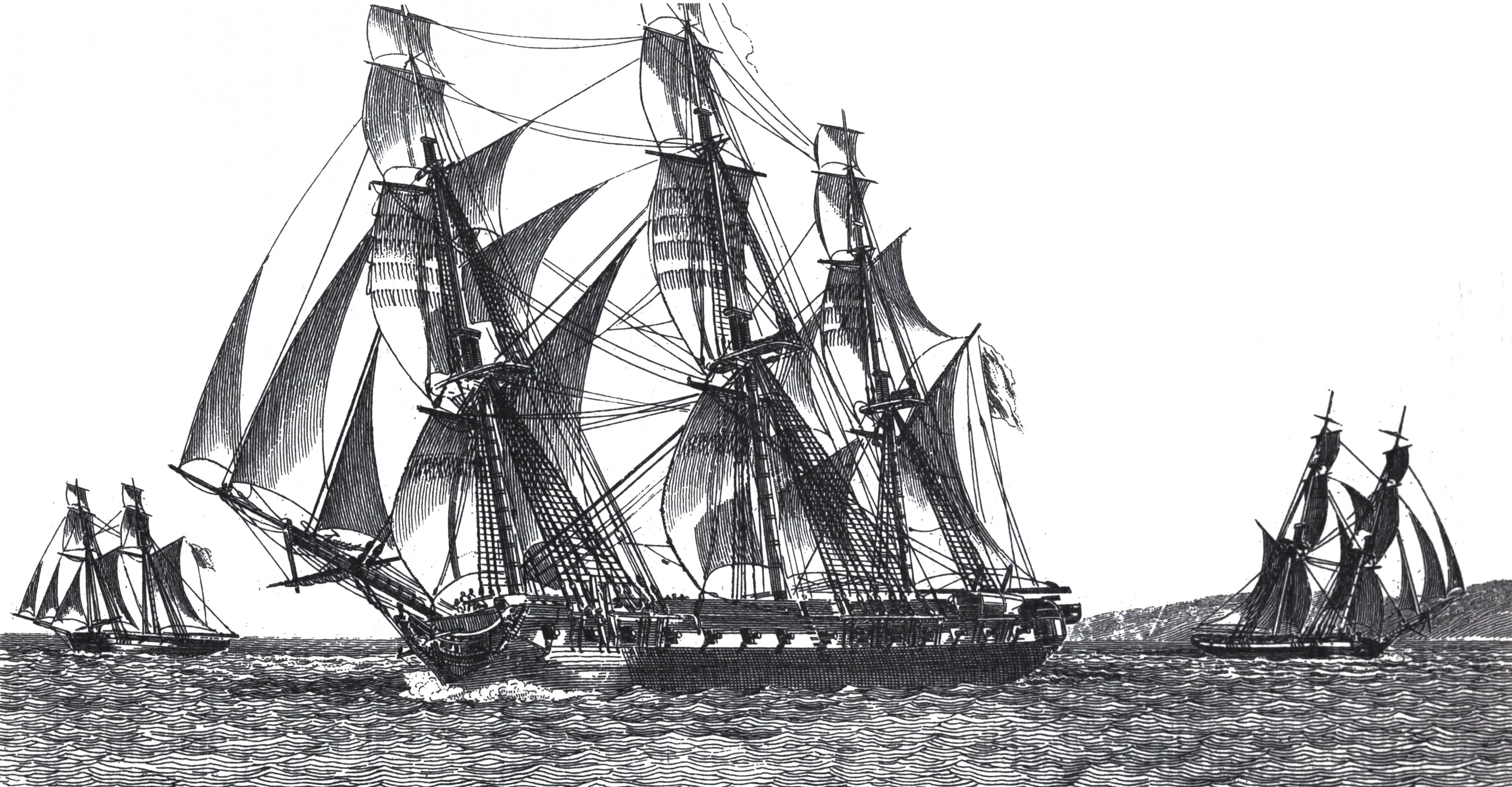 The frigate Méduse sailing various courses close hauled